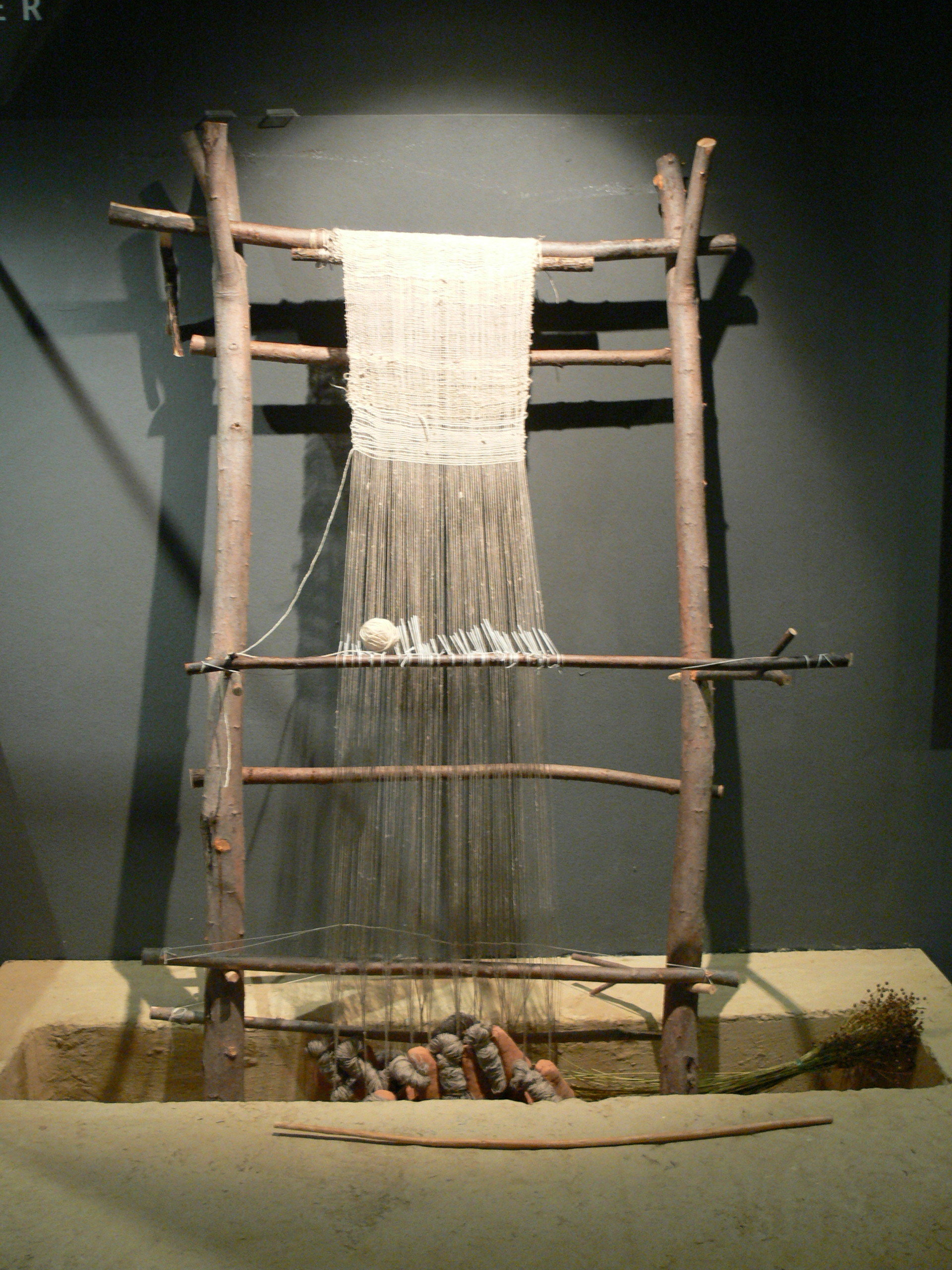 Museum Quintana. Urnfield culture ( 1100-800 BC ): Reconstruction of a loom. The weights are made of pottery.